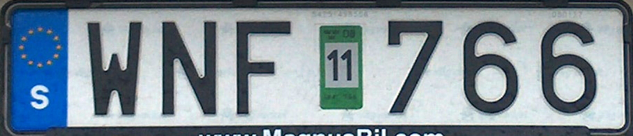 A Swedish euro-license plate